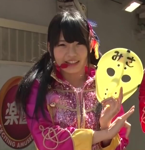 開店! SIRのパチスキ 第41話（アビバ綱島樽町店 神田ジャンボ プレサスpart2）23m45s 窪田美沙